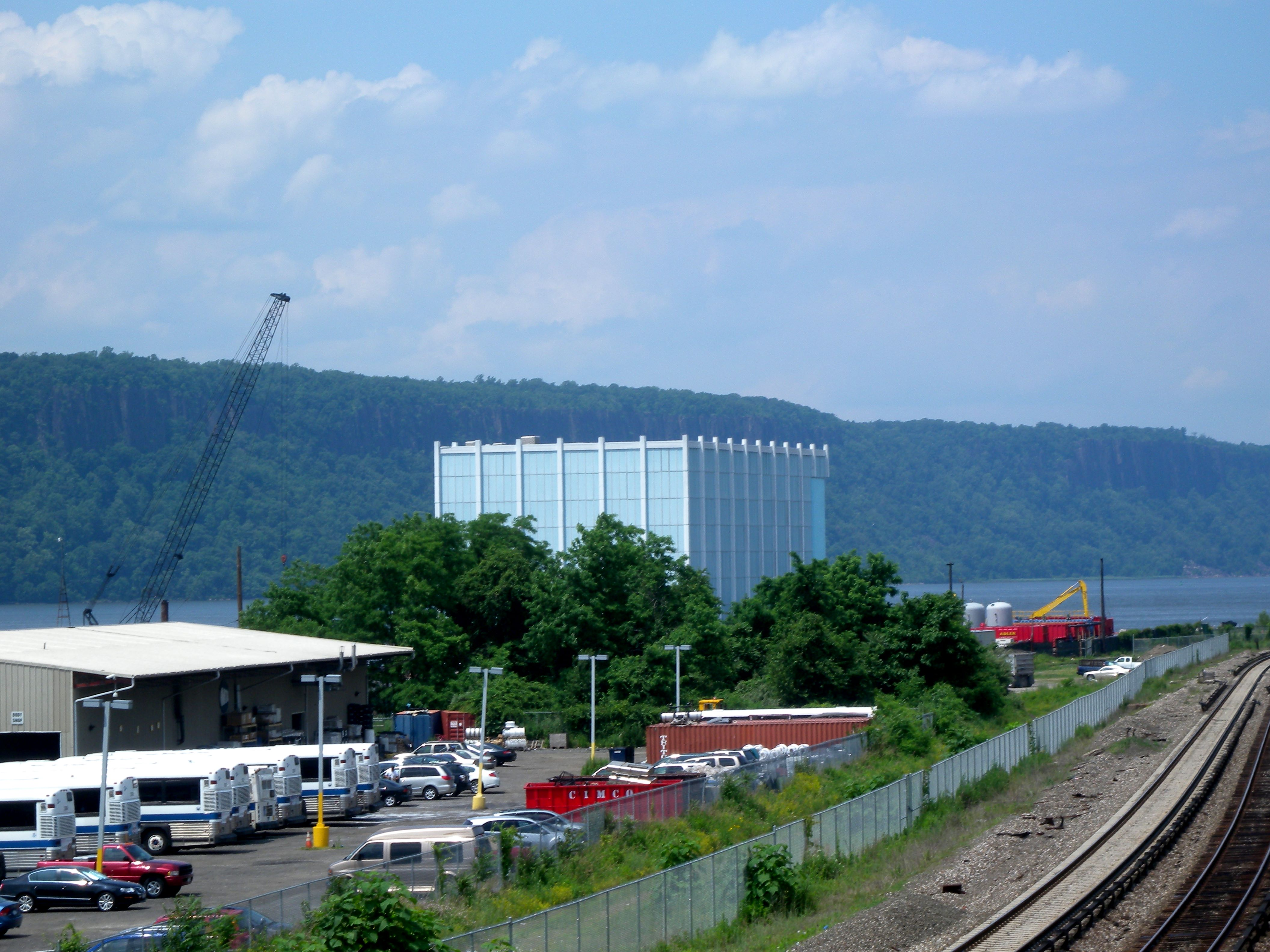 Looking north from overpass at former copper wire factory on a mostly cloudy afternoon.